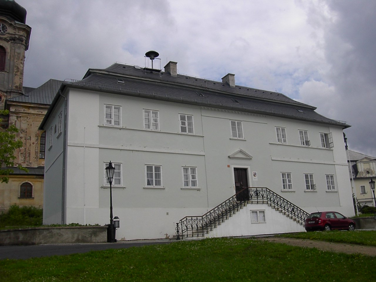 Town hall in Tepla, Czech Republic. Radnice v Teplé